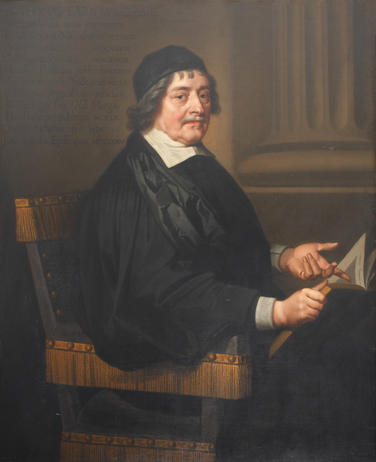 Thomas Barlow, Bodley's Librarian at the University of Oxford 1652-1660, and later Bishop of Lincoln.